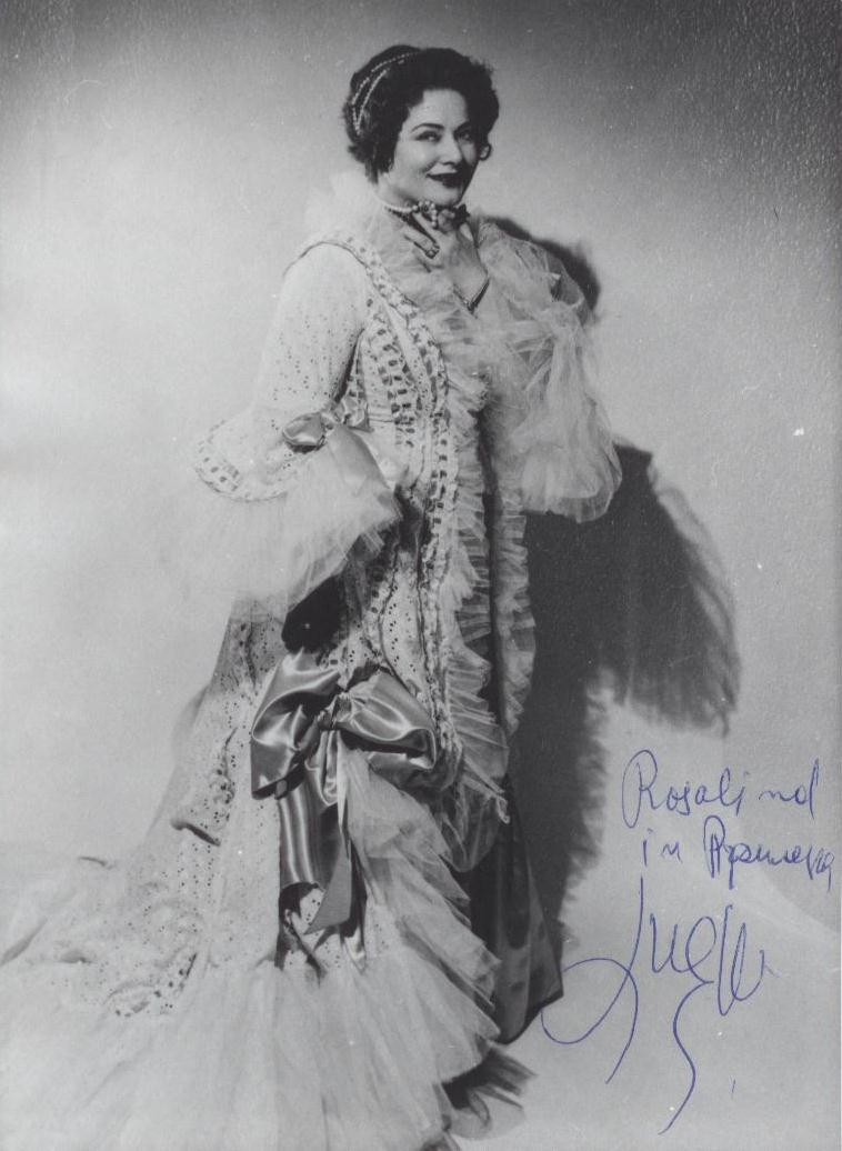 Bulgarian opera singer Ljuba Welitsch in the role of Rosalind in the operetta "The Bat" ("Die Fledermaus") by Johann Strauss